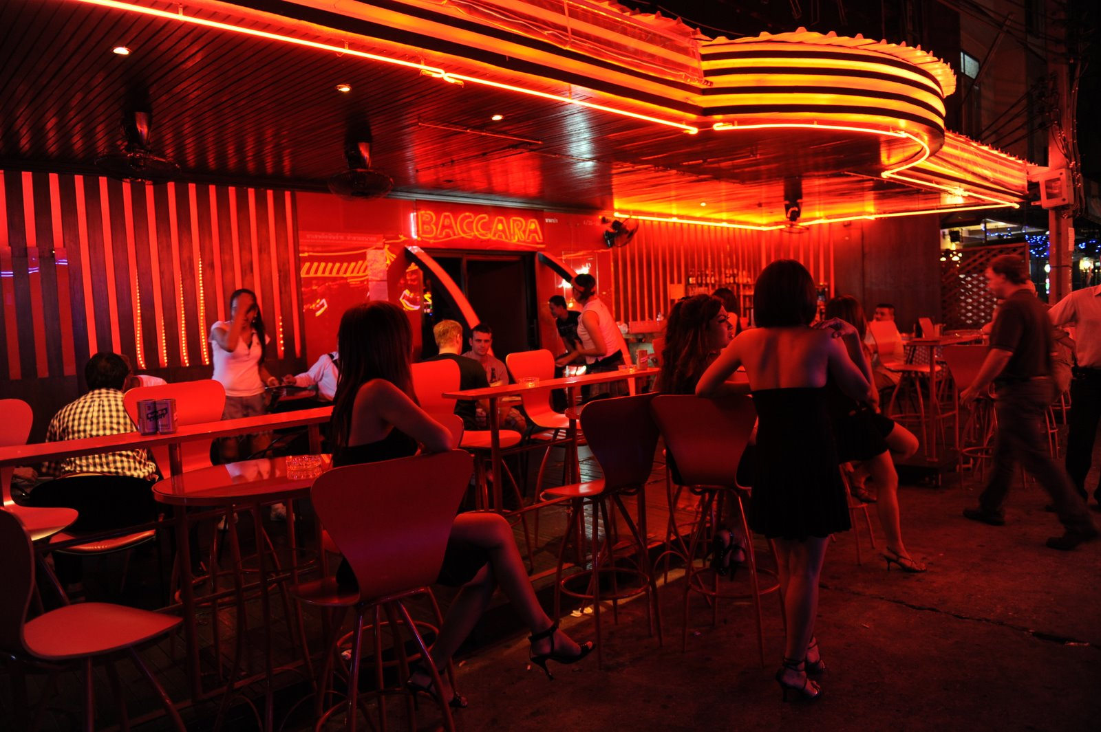 BKK: Red-light zone at Soi Cowboy.